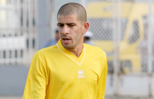 Photography done by myself (Clapsus) of the algerian footballer Mohamed Rabie Meftah